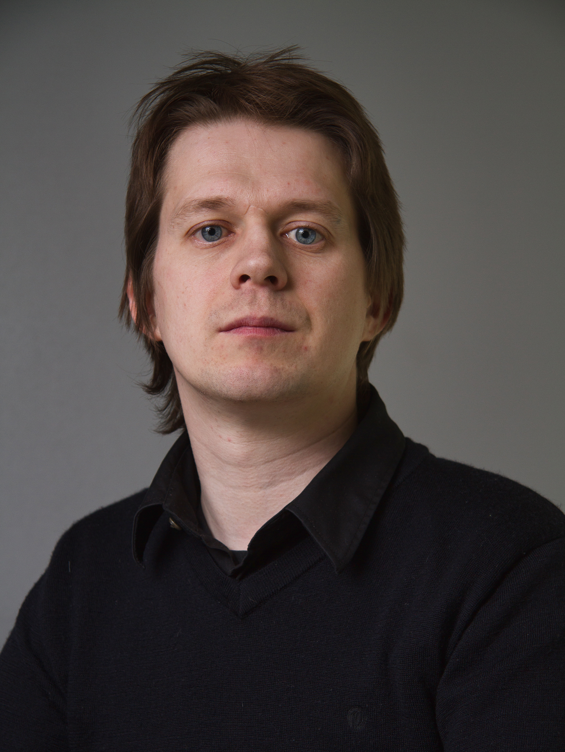 Brynmor Evans, Byutviklingskomiteen Bildet kan fritt lastes ned. Vennligst krediter fotograf. --- This image may be downloaded for commercial and non-commercial use. Please credit the photographer. Foto / Photo Credit: Mark Ledingham, Tromsø kommune.